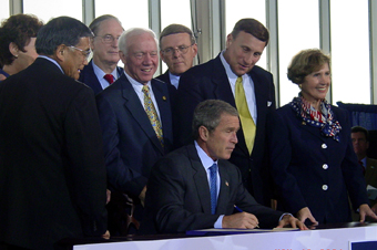 John Mica and other Congressional leaders look on as President George W. Bush signs new aviation security legislation into law